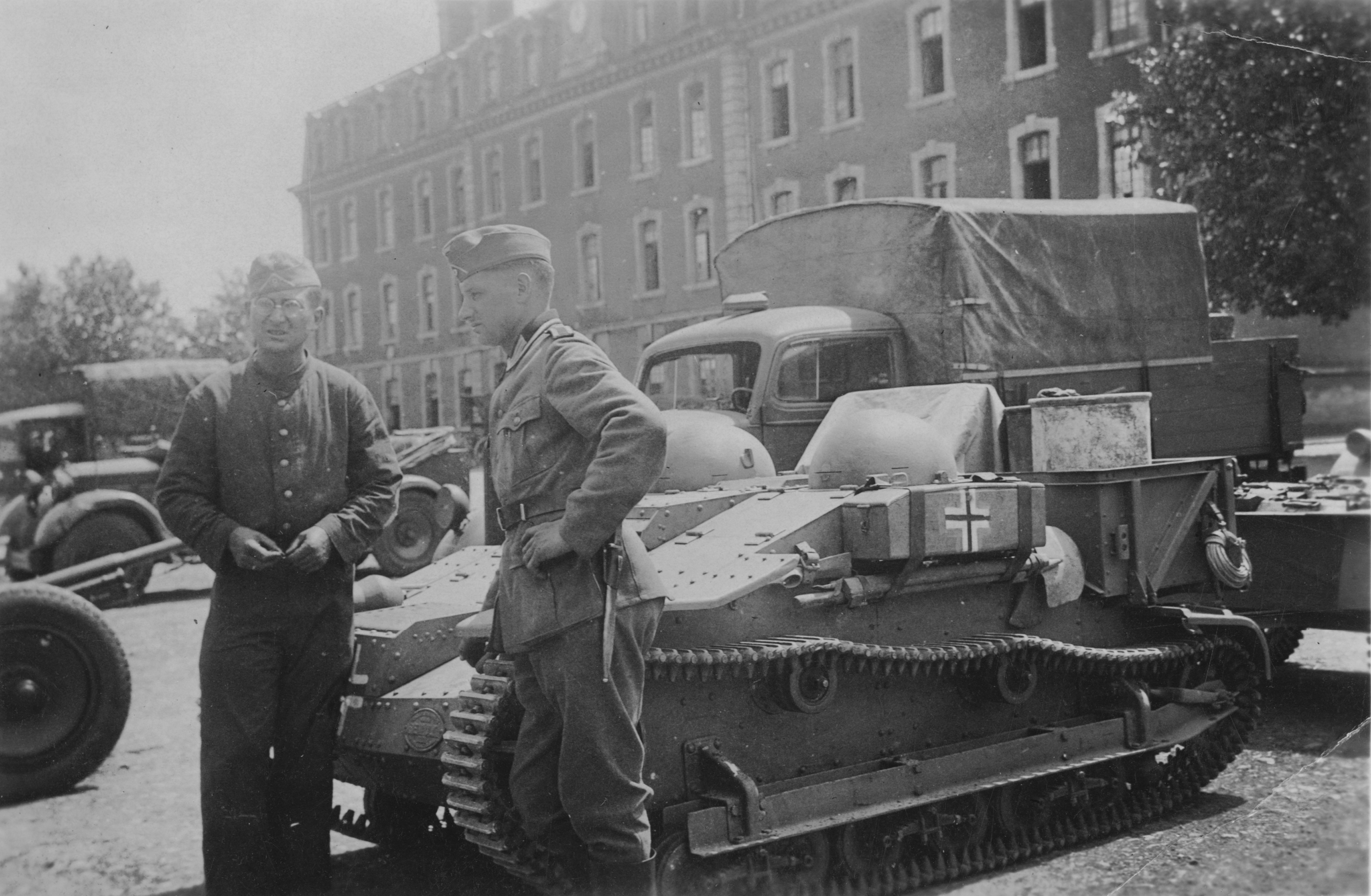 Renault UE Chenillette alias Schlepper UE 630(f) in Nancy.